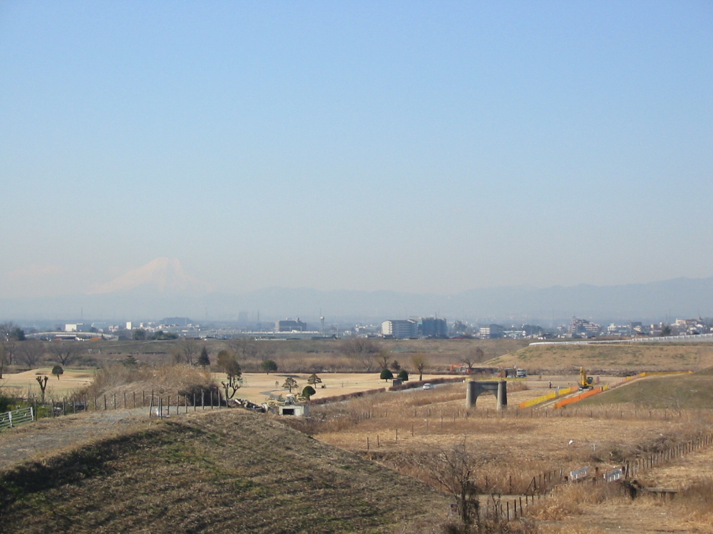 the pier of Old Kamigo-bridge(Kamigo-bashi) in Arakawa River. Saitama prefecture, Japan.